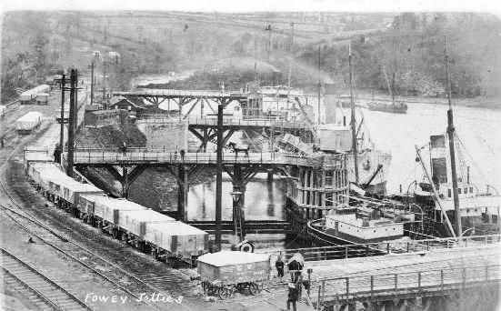 Jetties 1 to 4 at Fowey, Cornwall, England. Jetties 1 to 3 (nearest the camera) were built by the Cornwall Minerals Railway in 1873 for loading china clay and other minerals onto ships. The River Fowey runs left to right towards the sea; the jetties are situated between Caffa Mill Pill and Carne Point.